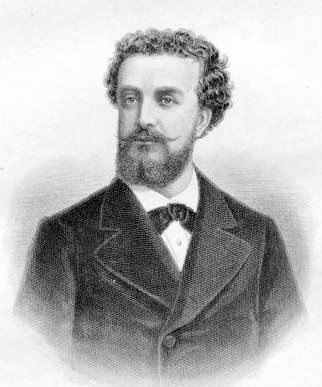 French opera singer Ernesto Nicolini (1834-1898) by August Weger (1823-1892).